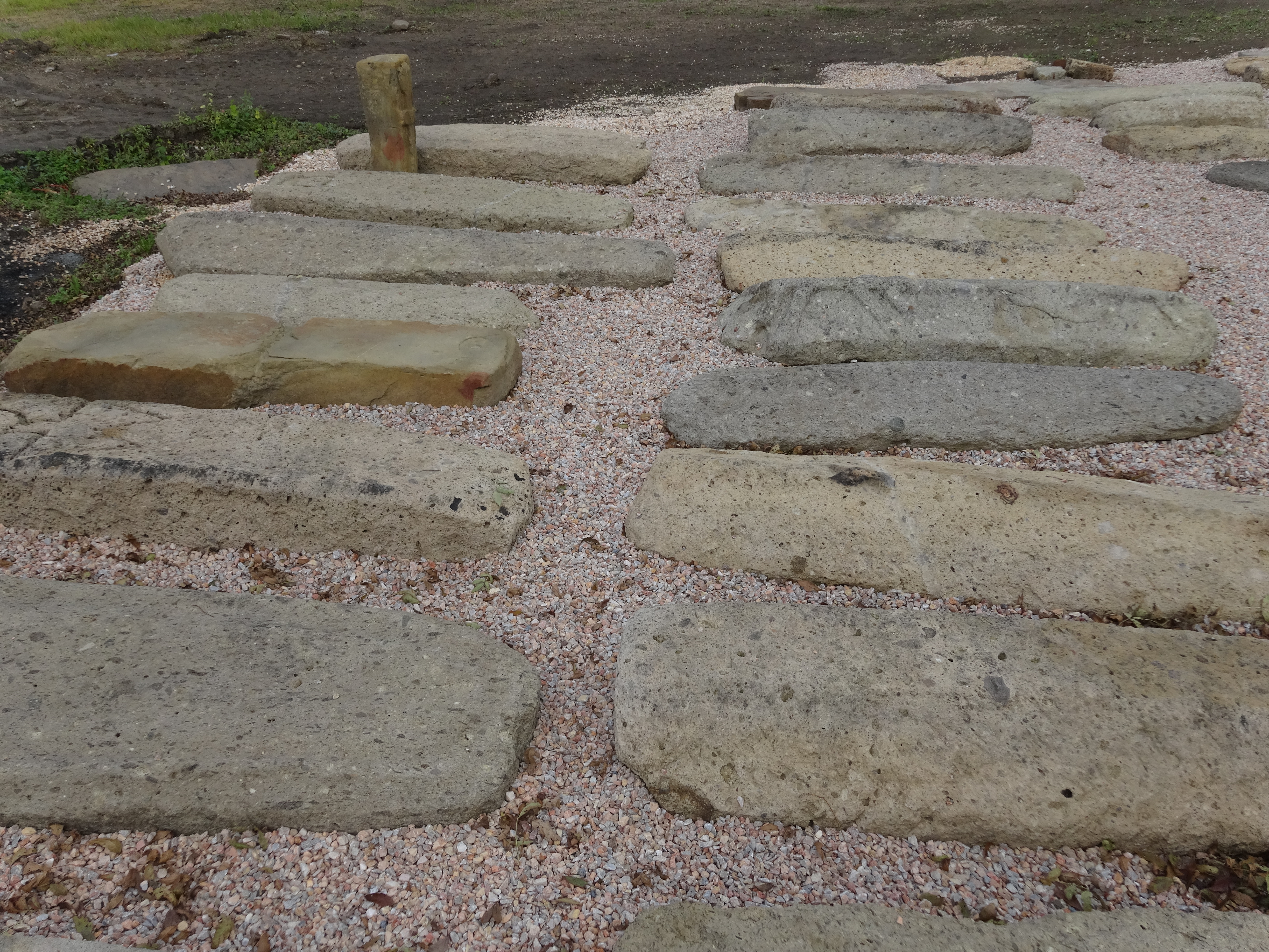 Dići, Church of Saint John the Baptist with necropolis